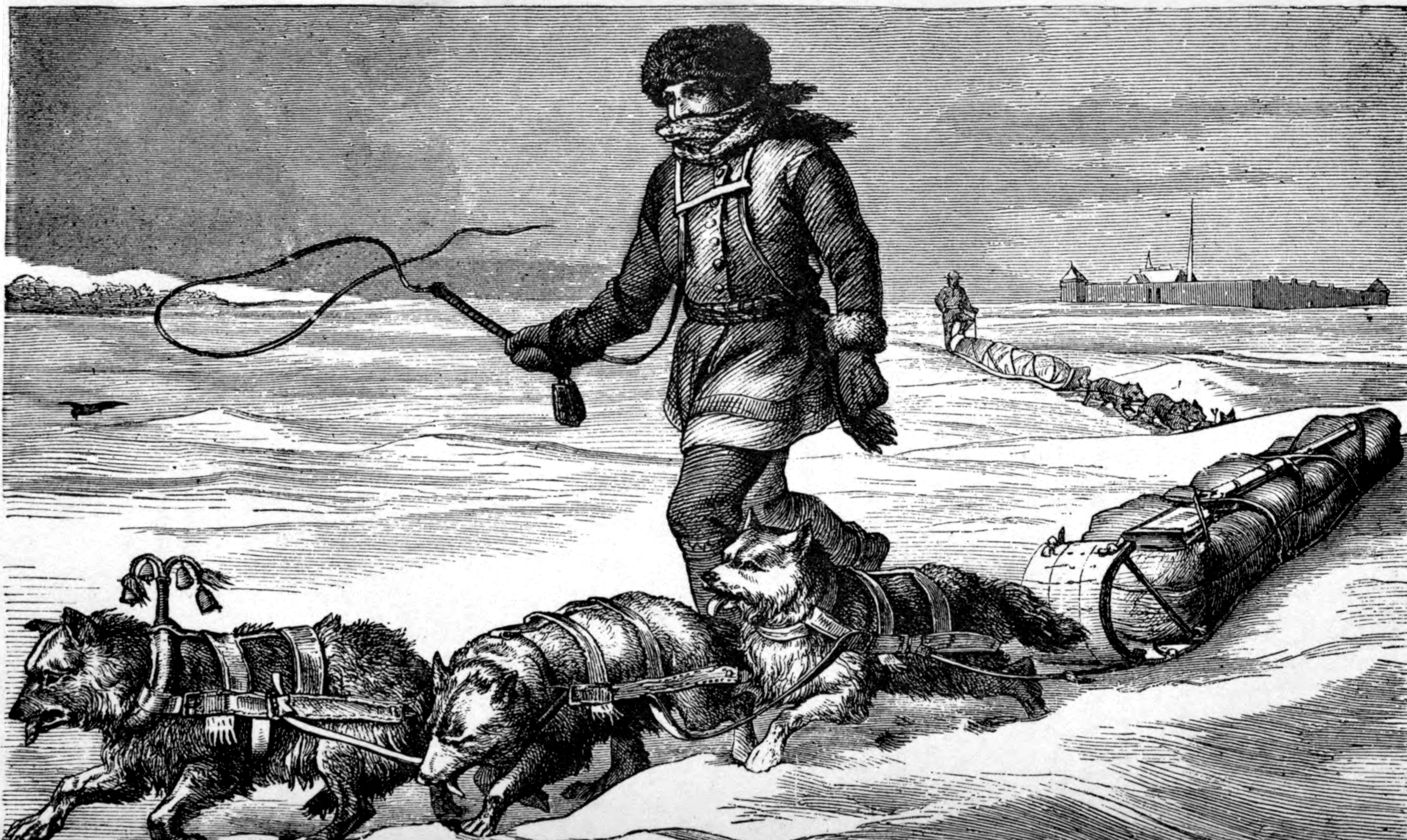 Winter couriers of the North-West Fur Company